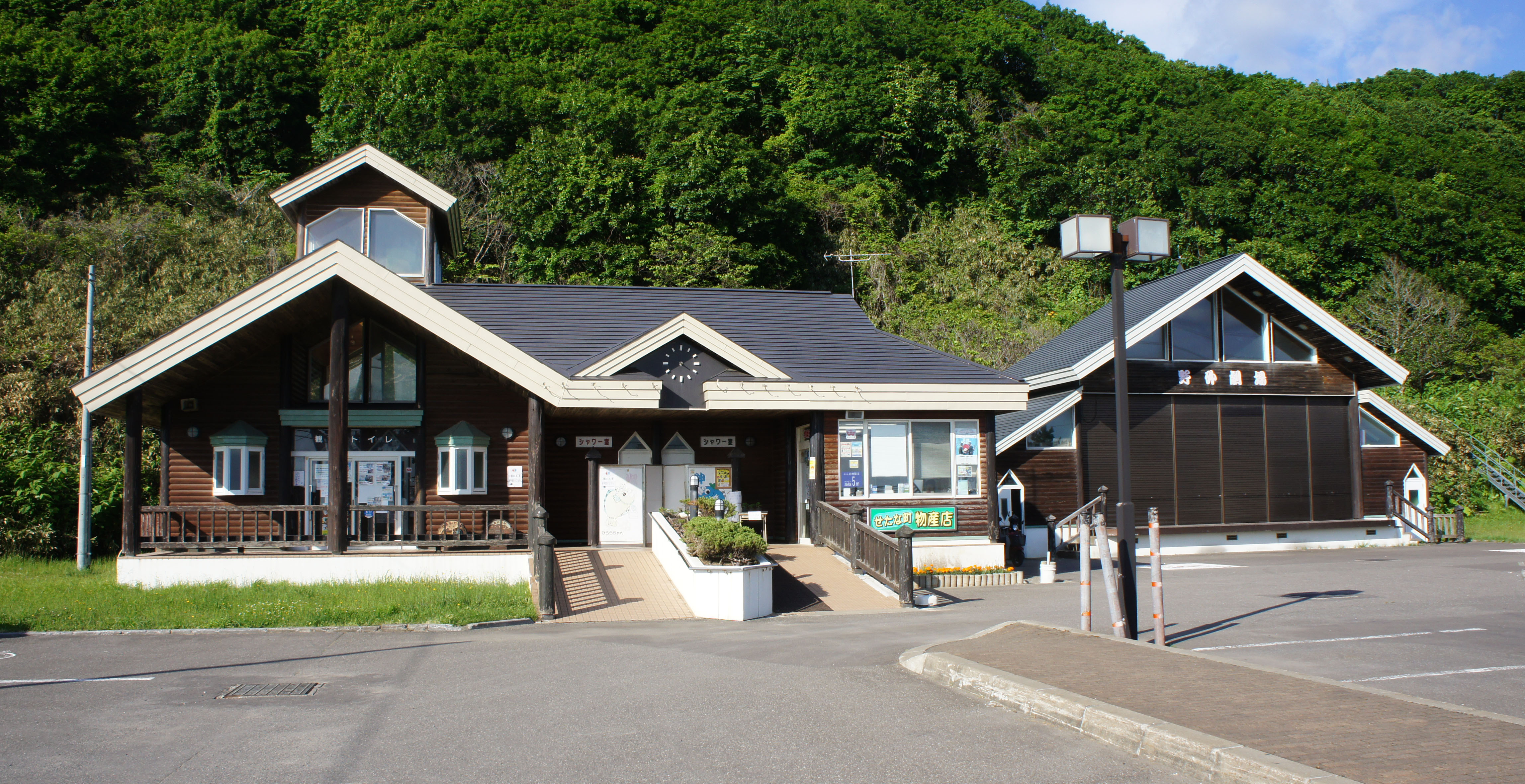 A picture of the Michinoeki Tekkui Land Taisei in Setana Town, Hokkaido